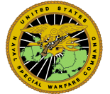 Logo of the United States Naval Special Warfare Command. Contents 1 Copyright information 2 Source of image 3 Licensing 4 Original upload log Copyright information Public domain: United States Navy. Source of image Taken on July 20, 2004 from [1]: : Naval Special Warfare Command